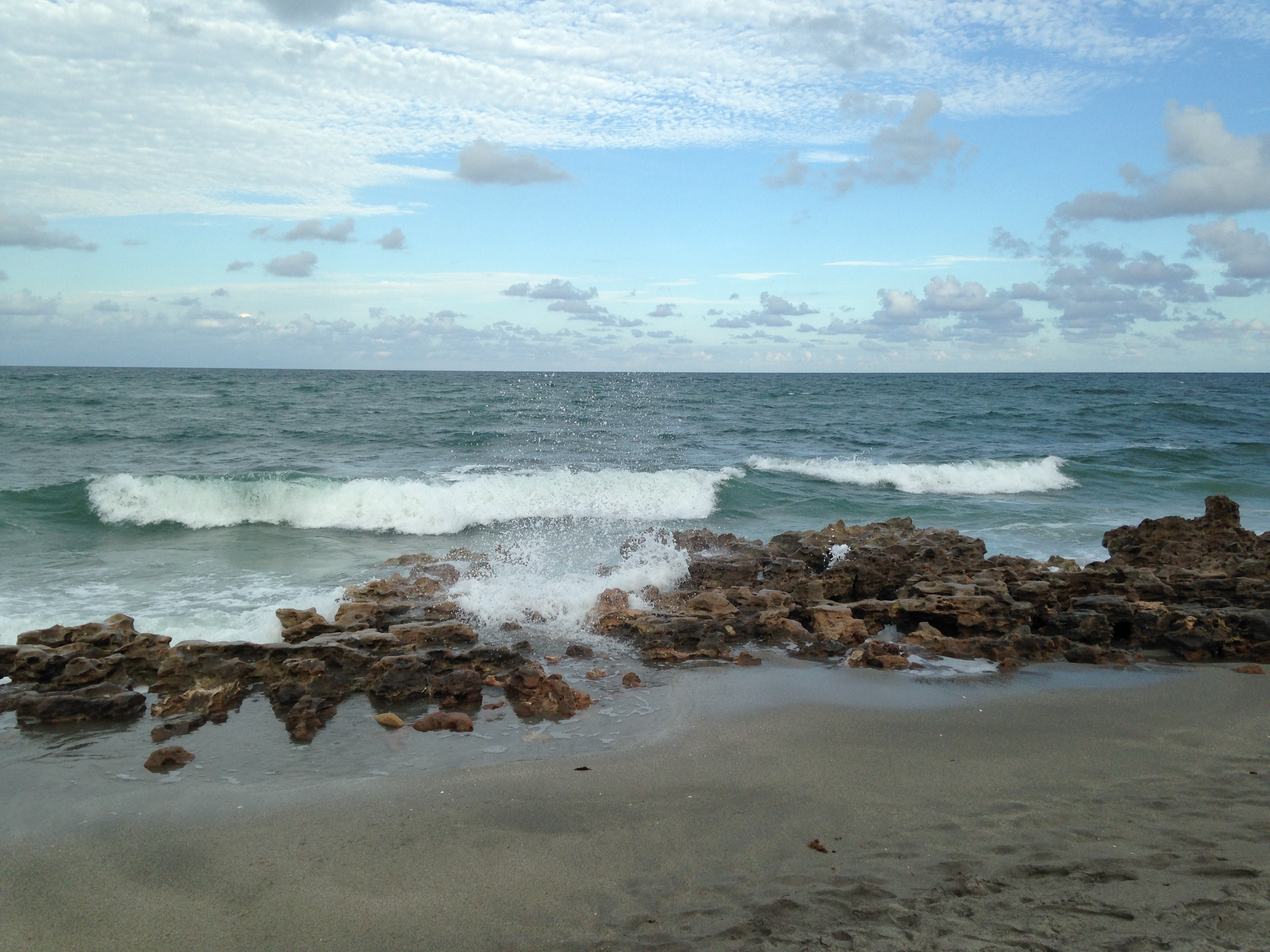 Coral Cove Park beach with natural limestone